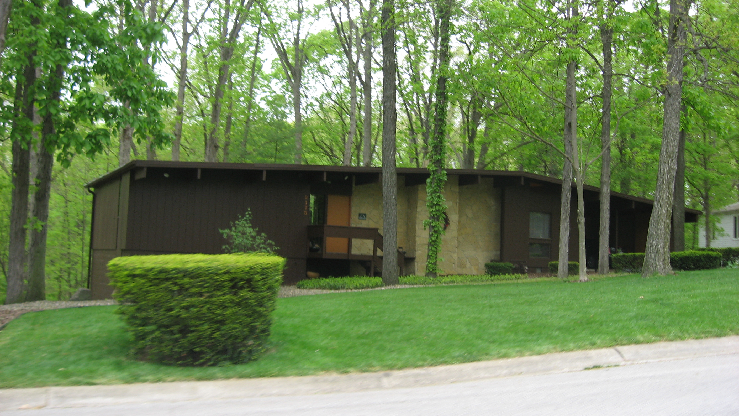 Front of the Curtis-Grace House, located at 2175 Tecumseh Park Lane in West Lafayette, Indiana, United States. Built in 1958, it is listed on the National Register of Historic Places.